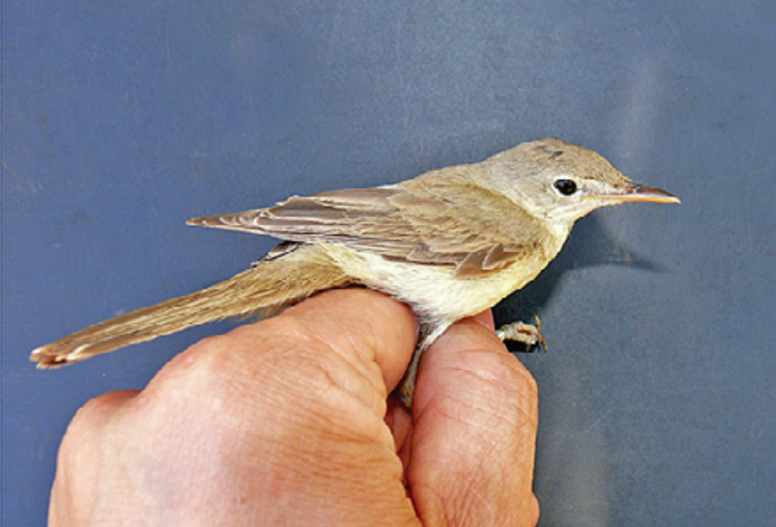 Cropped from Figure A in the image shown. Bird species and tick specimens collected in Zouala, Morocco, April 2011. A) Iduna opaca